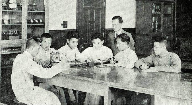 1938s in Yaohua